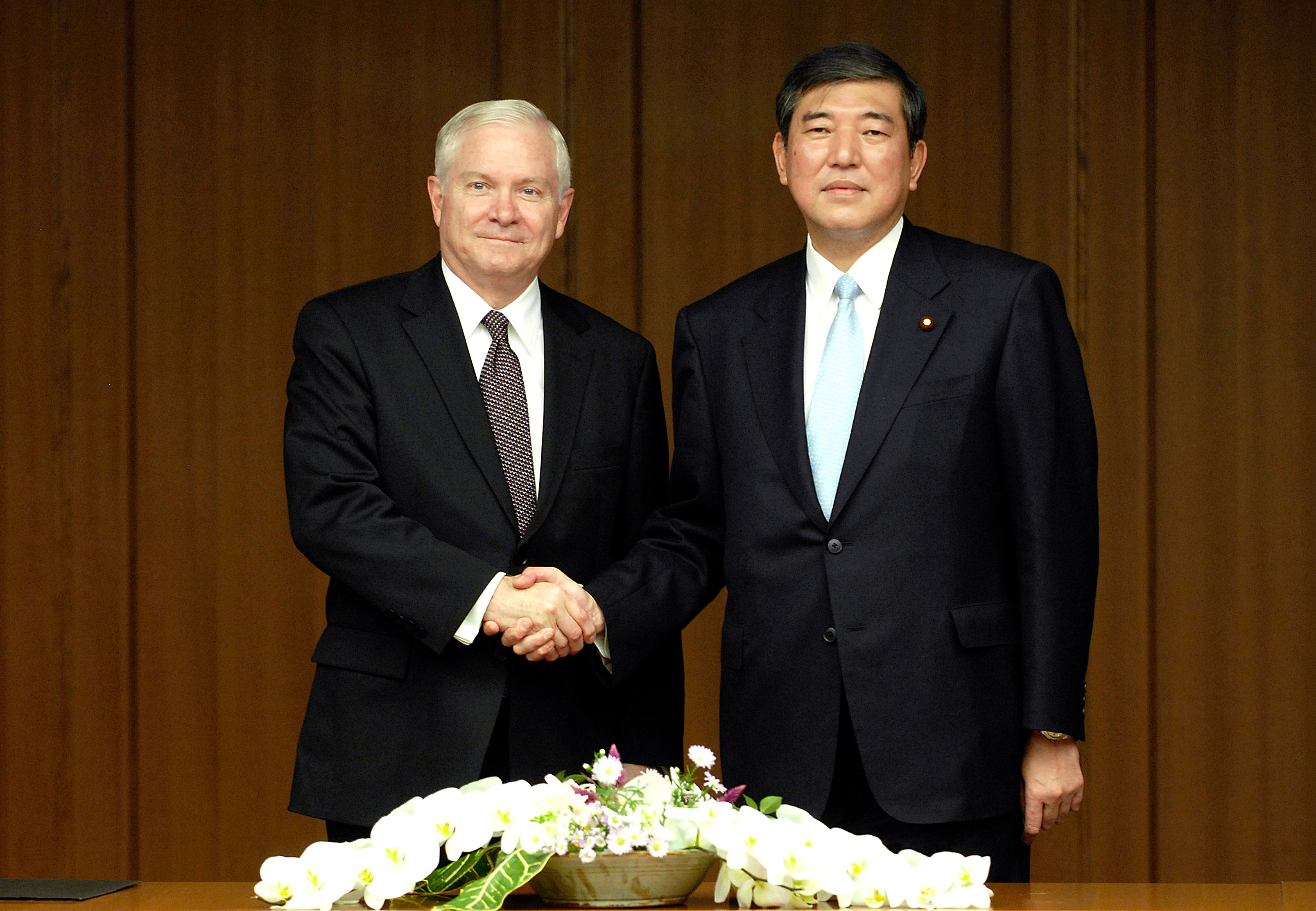 Defense Secretary Robert Gates meets with Japanese Minister of Defense Shigeru Ishiba at the Ministry of Defense in Tokyo, Japan. Defense Dept. photo by Cherie A. Thurlby